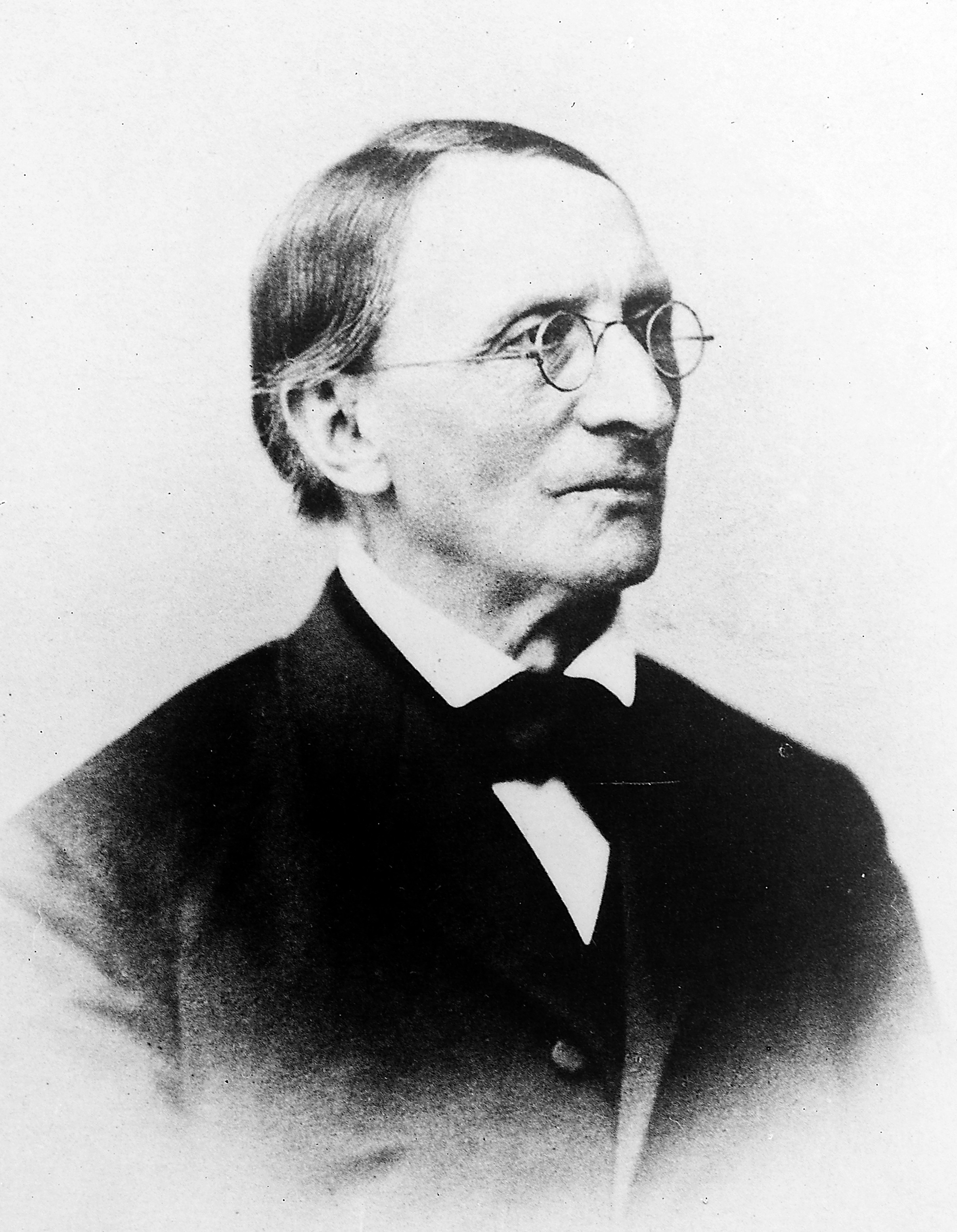 Carl Friedrich Wilhelm Ludwig (29 December 1816, Witzenhausen – 23 April 1895, Leipzig); From: Some Apostles of Physiology by William Stirling, Published: London 1902, Facing page 90